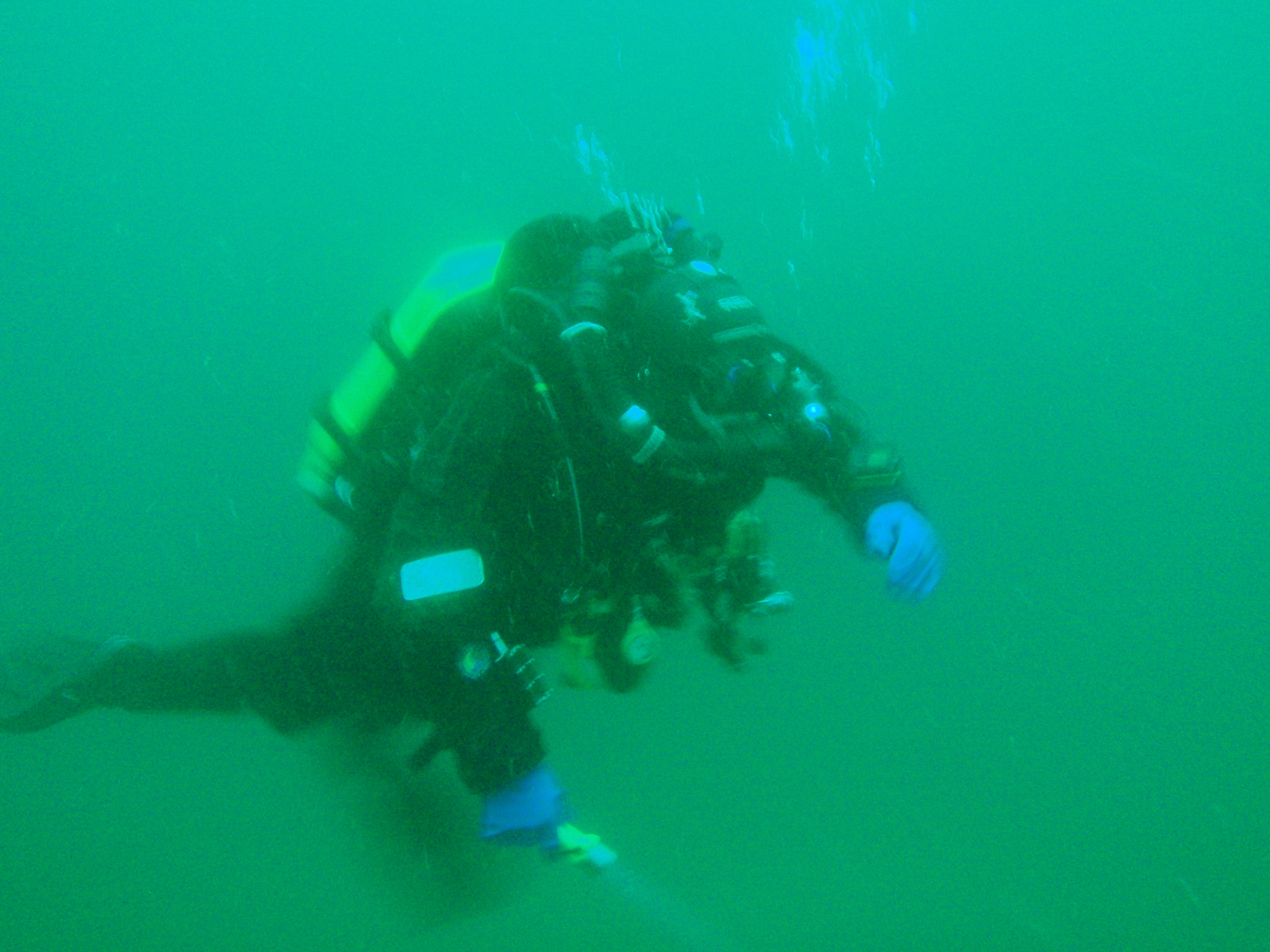 Diver using Inspiration rebreather at the wreck of the MV Orotava in Smitswinkel Bay off the Cape Peninsula